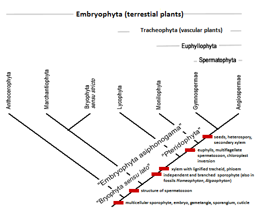 Phylogenetic tree of embryophytes and monophyletic groups according to Engler. Based in part on Judd, Walter S. (2007) Plant systematics: a phylogenetic approach. (1st ed. 1999, 2nd 2002) (3rd ed.), Sinauer Associates Retrieved on 29 January 2014. ISBN: 0-87893-407-3.